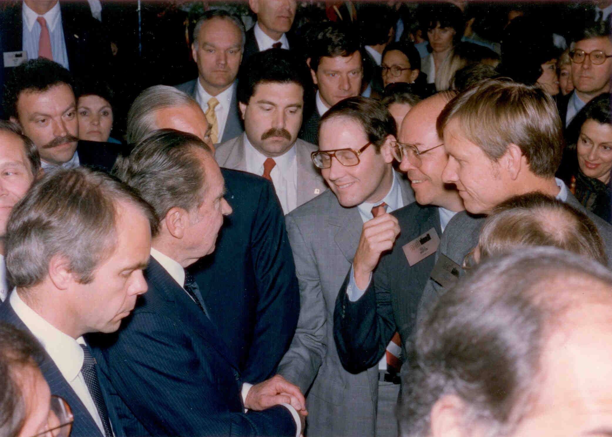 Jeffrey A. Legum and President Richard Nixon